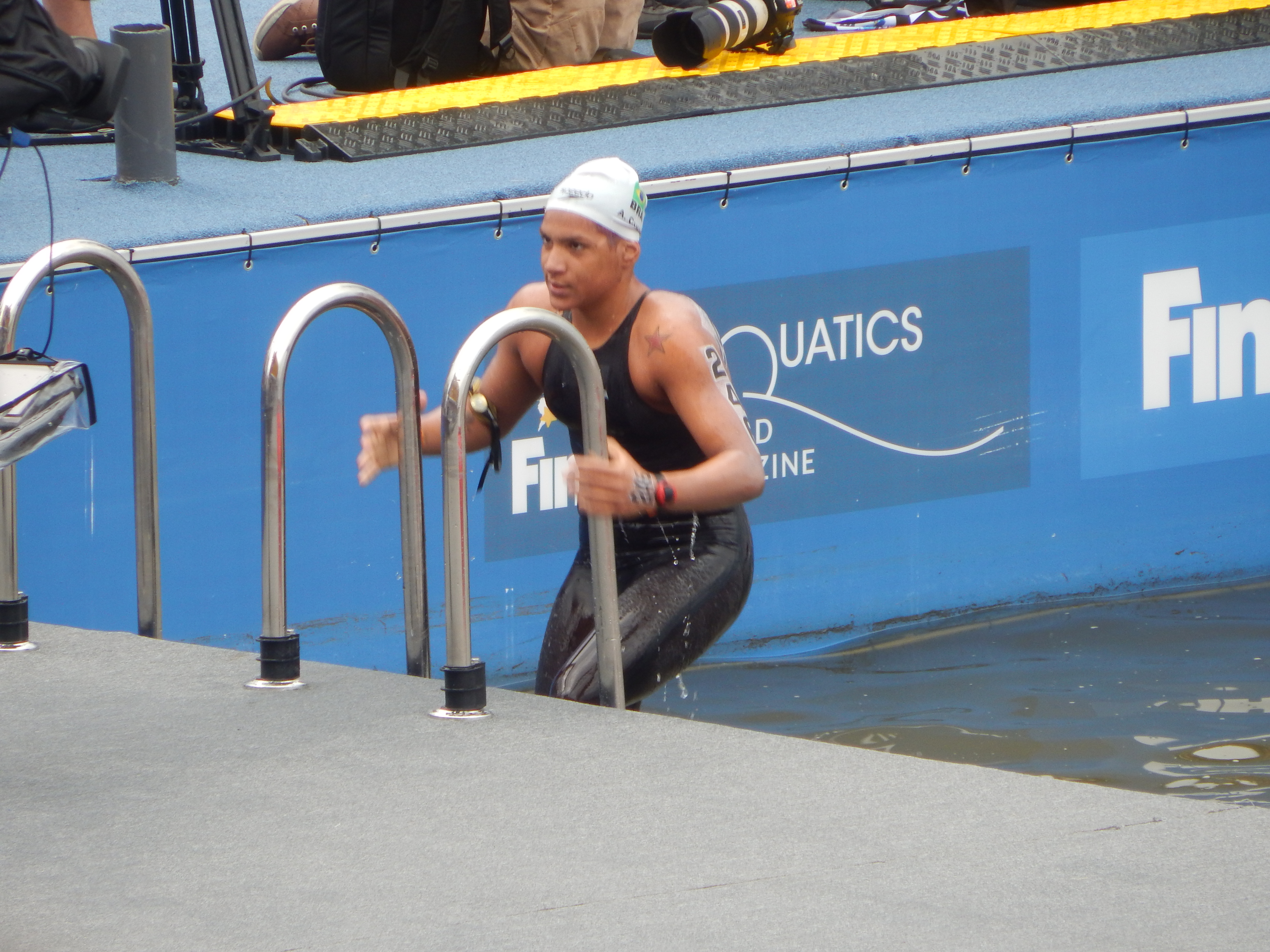 Ana Marcela Cunha, 2015 world champion in 25km open water swimming race